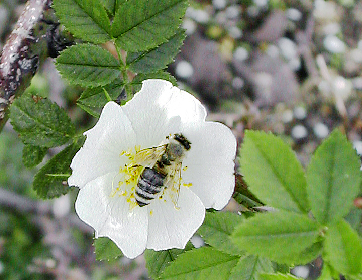 Honeybee (Apis sp.), on a Field rose (Rosa arvensis)